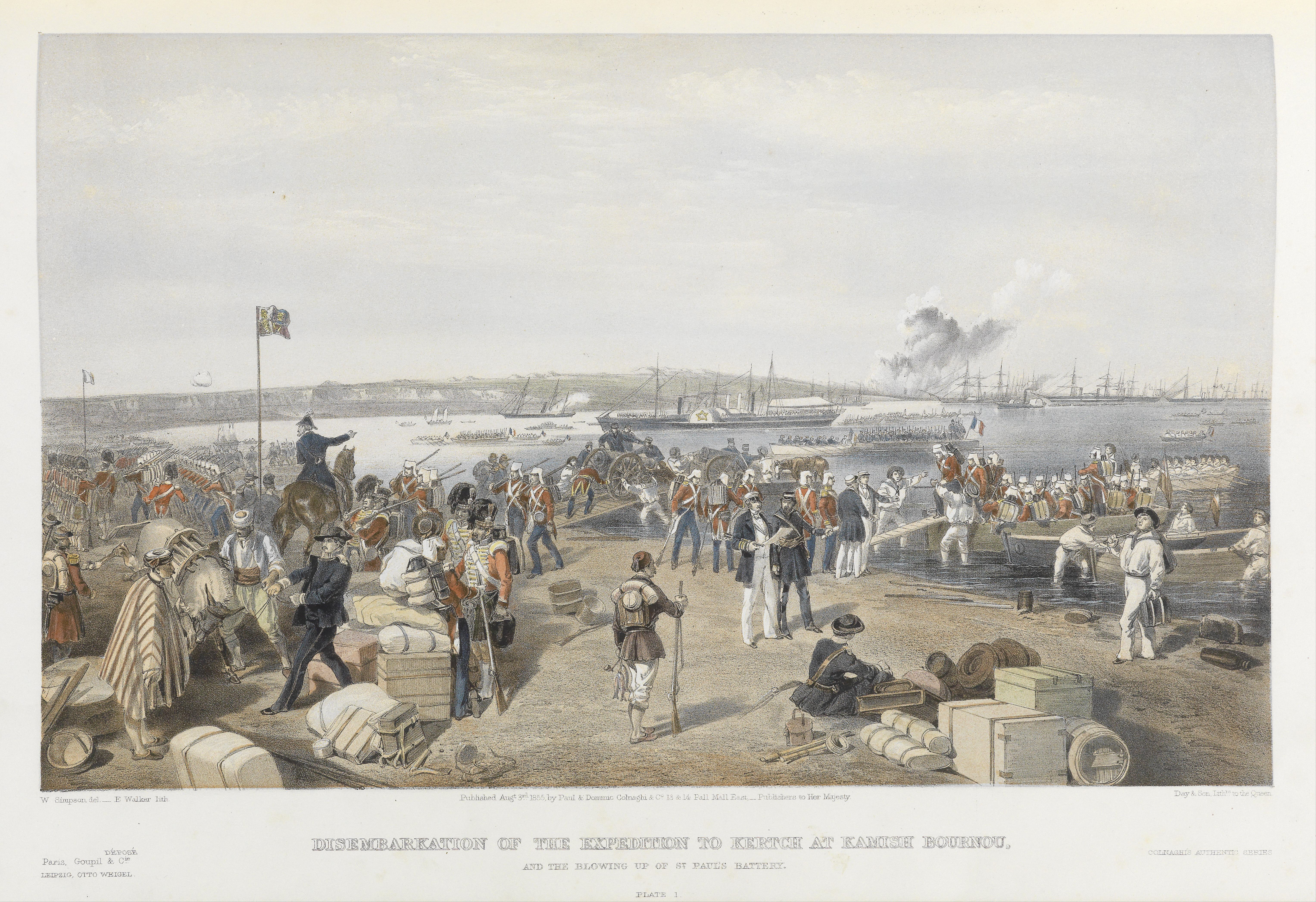 Disembarkation of the expedition to Kertch at Kamish Bournou, from: The Seat of the War in the East. London : Colnaghi 1855-1856